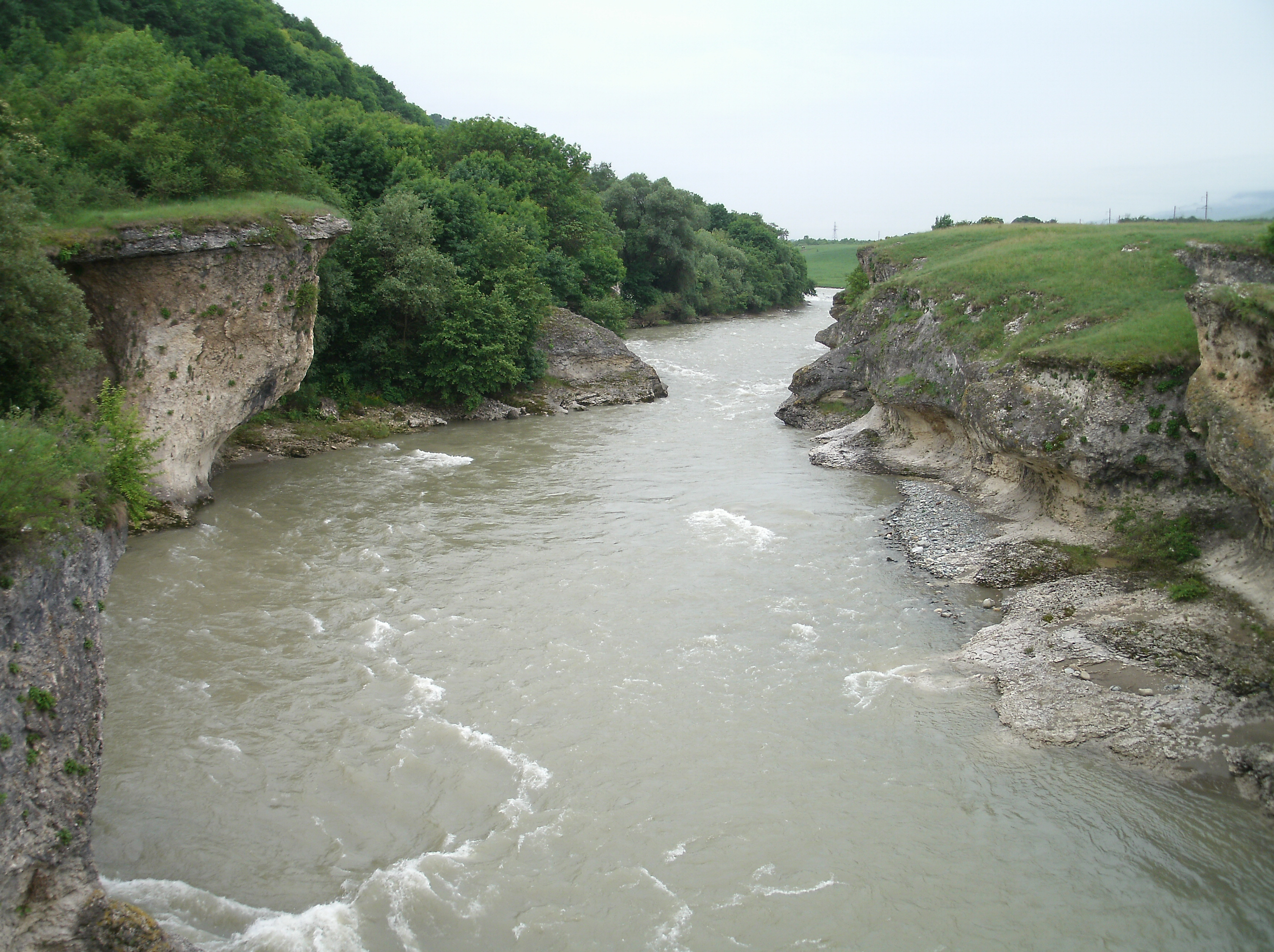 The canyon of the river Big Zelenchuk